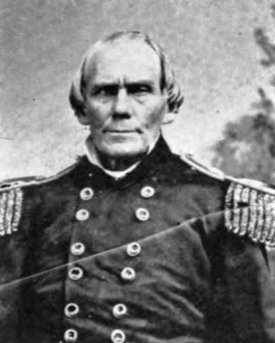 General Stephen Coffin (1808-1882), Oregon pioneer and early landowner and transportation entrepreneur; he was also a Brigadier General in the Oregon Militia